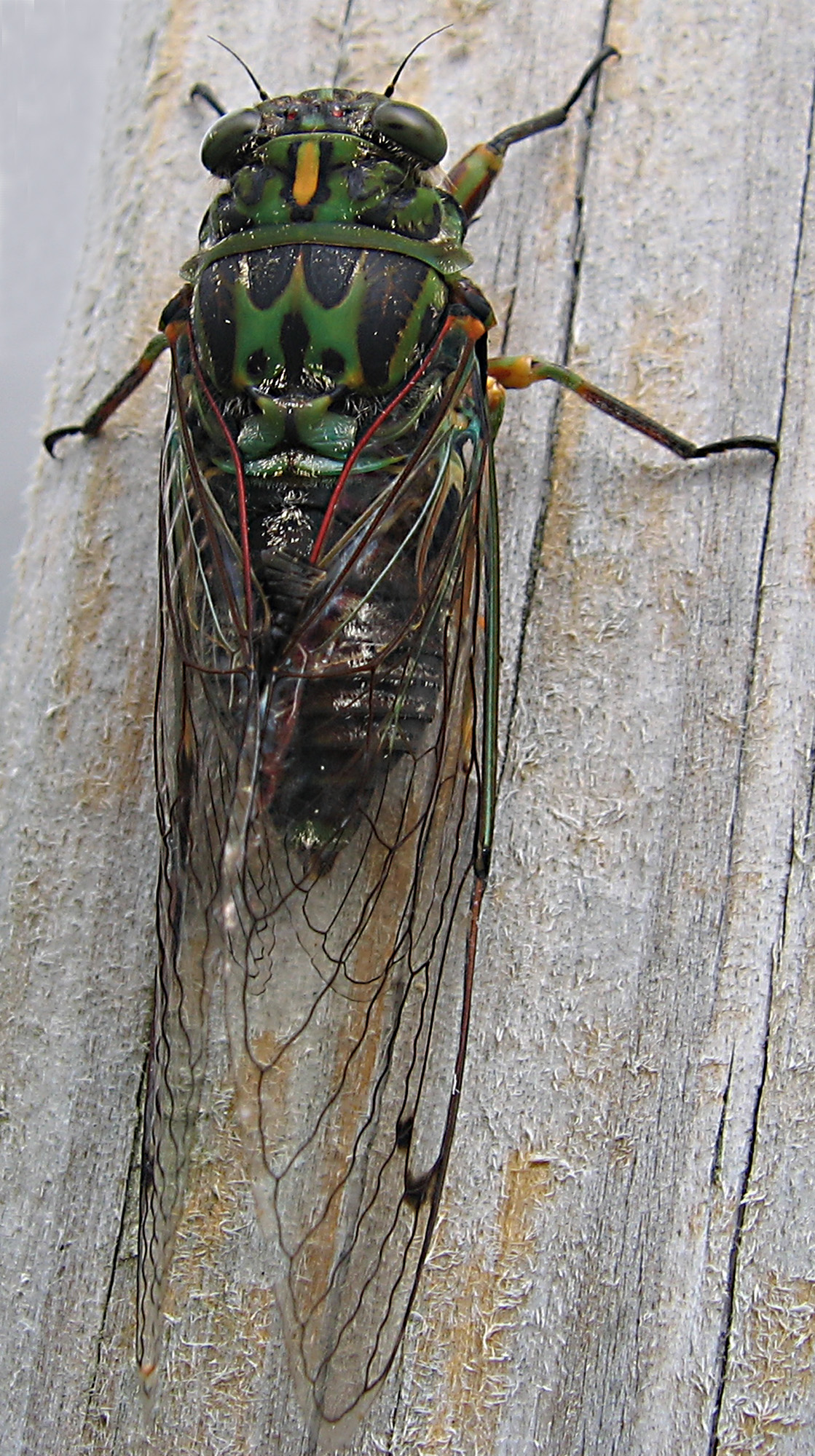 New Zealand Cicada - The body on this one measured 3.5cm.